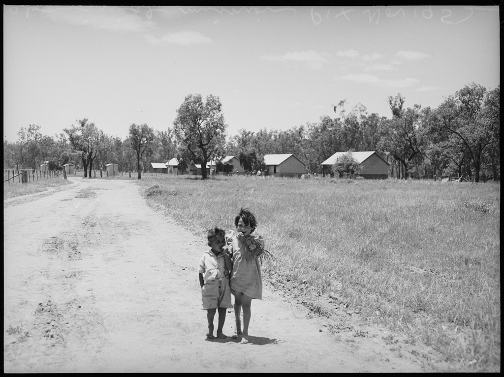 Children outside some of the 27 houses at Boggabilla Station, November 1952, Pix magazine photograph, silver gelatin negative, State Library of New South Wales ON 388/Box 038/Item 050